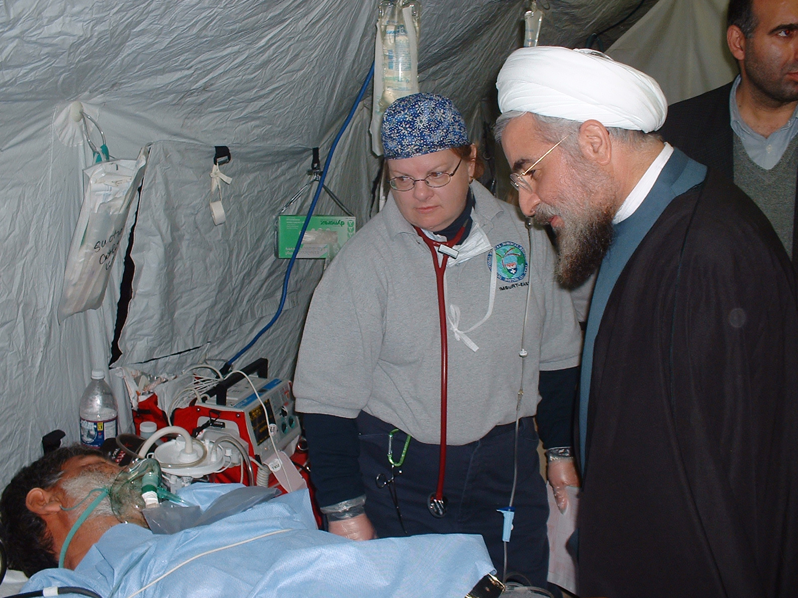 Bam, Iran, December 23, 2003 -- Dr. Hassan Rouhani, Secretary of the Supreme National Security Council of Iran, visits patients at the U.S. field hospital. Photo by Marty Bahamonde/FEMA photo